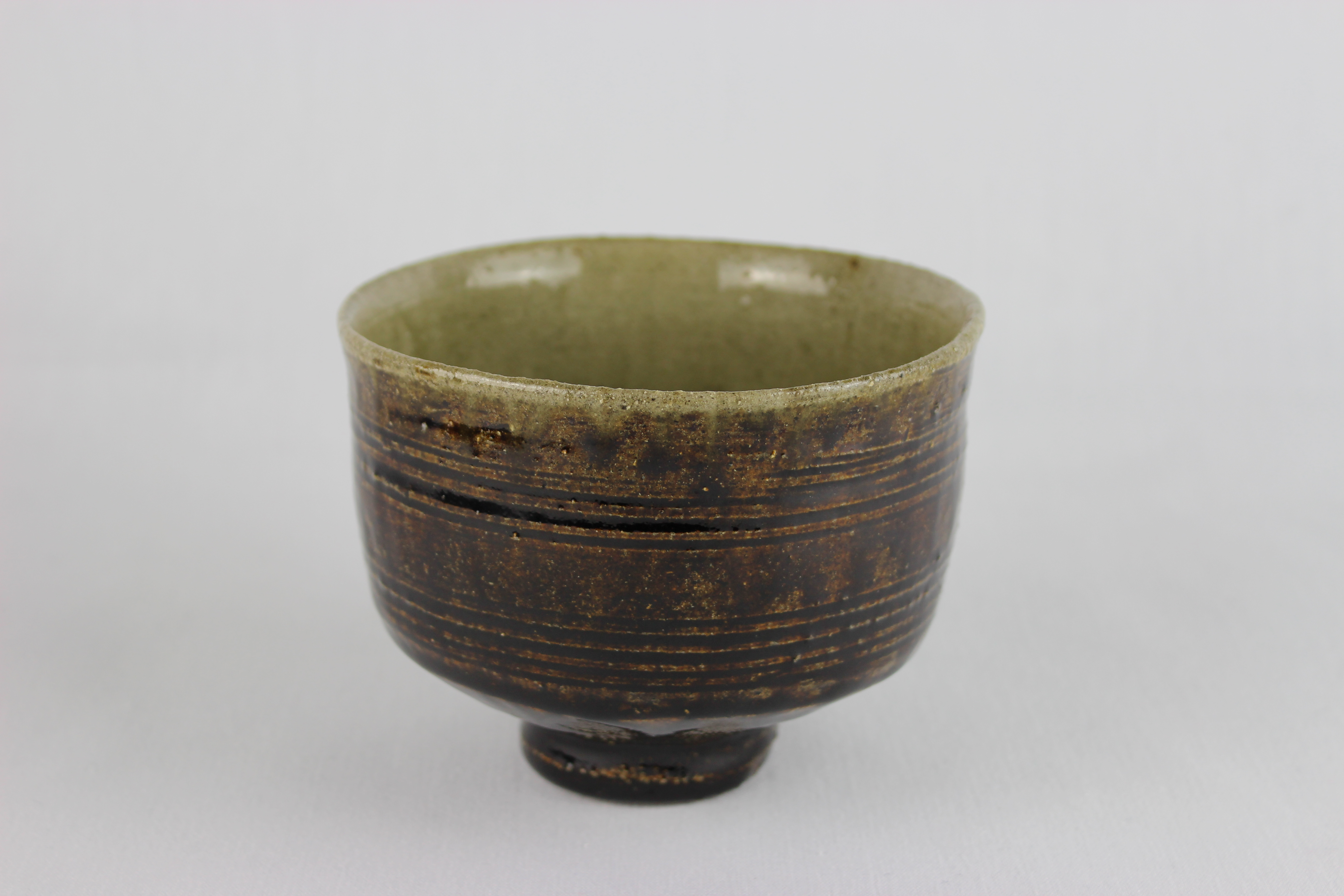 Ame glazed tea bowl with combed band around exterior. From the W.A. Ismay Studio Ceramics Collection at York Art Gallery